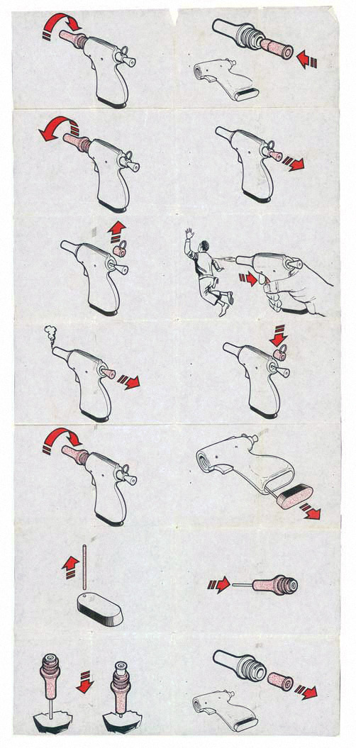 Deer gun instructions